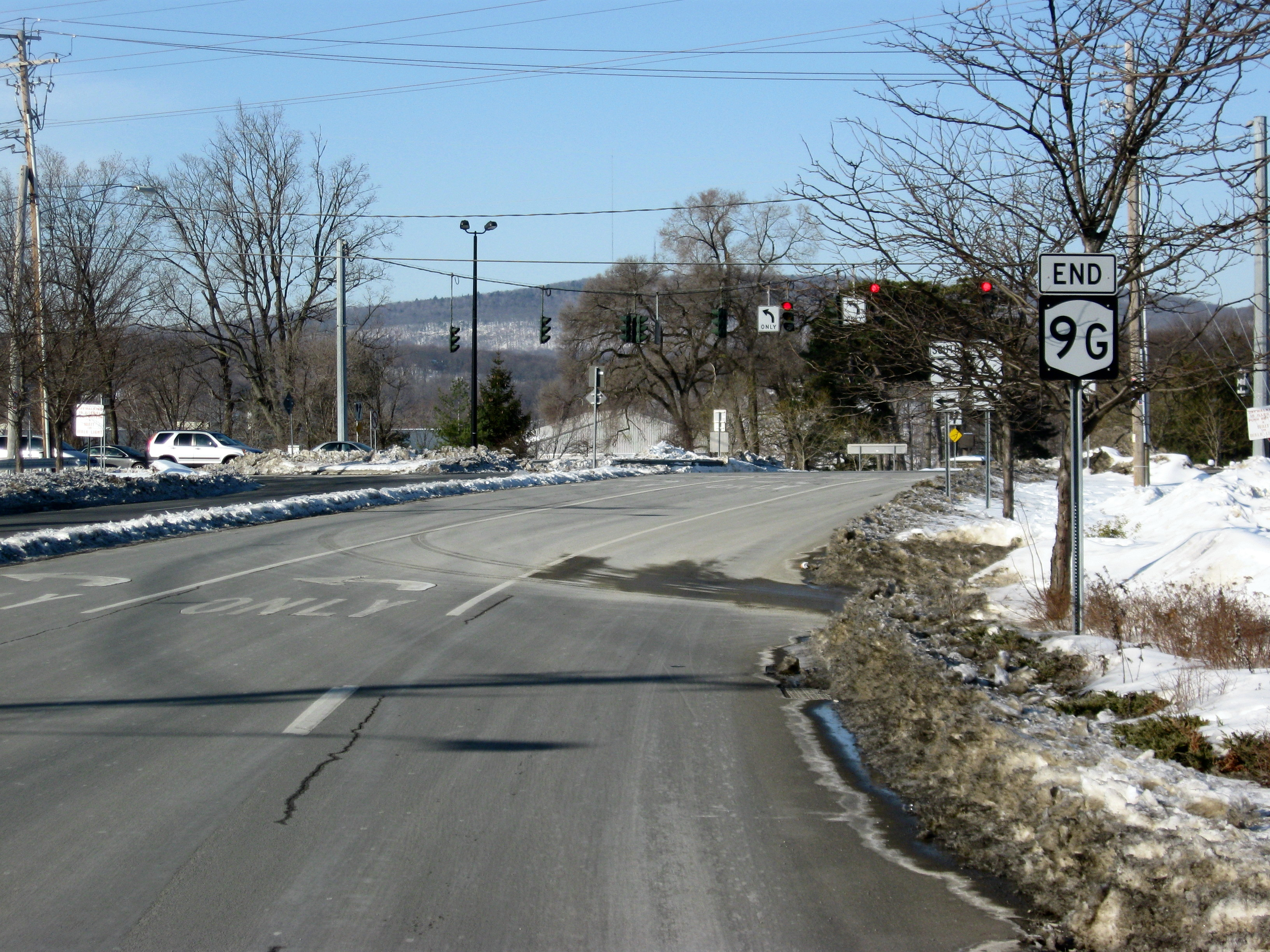 The southern terminus of New York State Route 9G as it approaches US 9 in Poughkeepsie, New York.